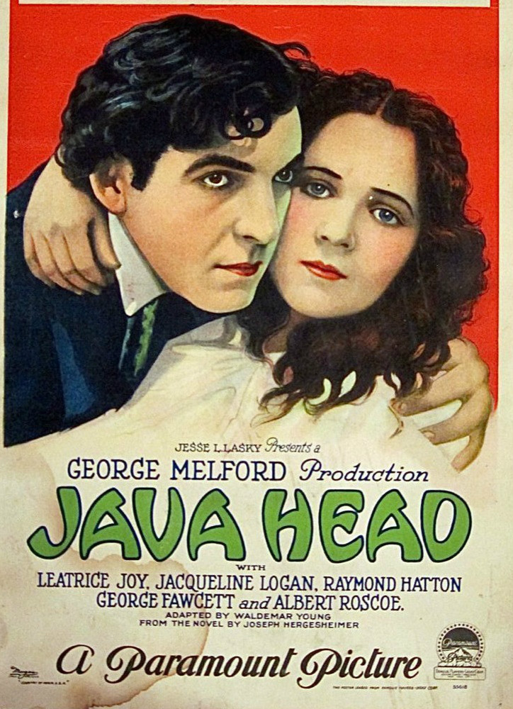 Window poster for the American romantic drama film Java Head (1923) with Frederick Strong and Jacqueline Logan.